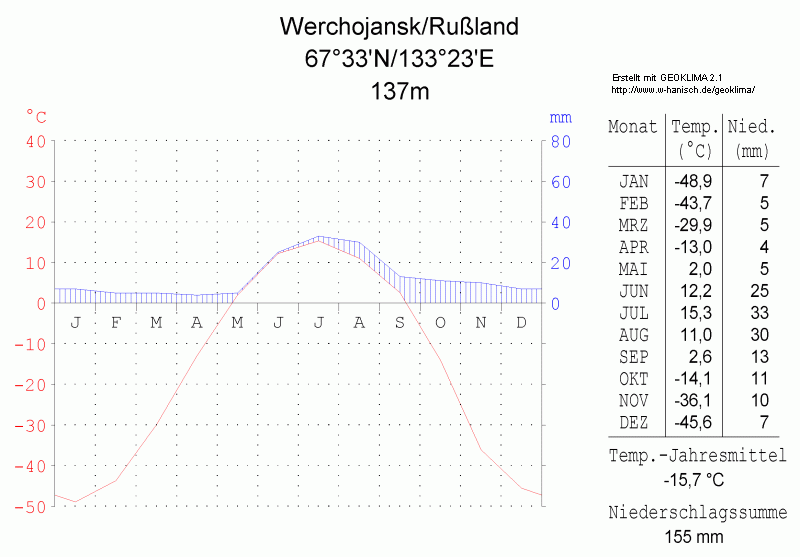 climate chart in the format by Walther and Lieth, metric, °Celsisus and millimeters, made with Geoklima 2.1